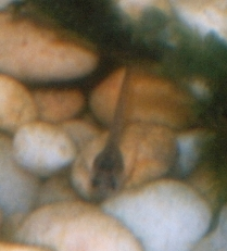 Author: User:Calilasseia Photograph of 2nd generation fry from own breeding stock taken May 2003. Original image on print from 35mm negative.